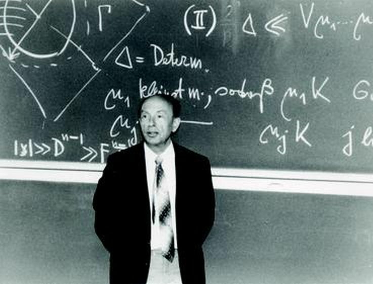 Wolfgang Schmidt, Wien 1987